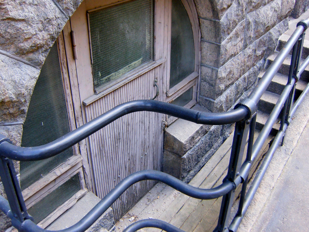 A little staircase by the street Albertinkatu, Helsinki, Finland